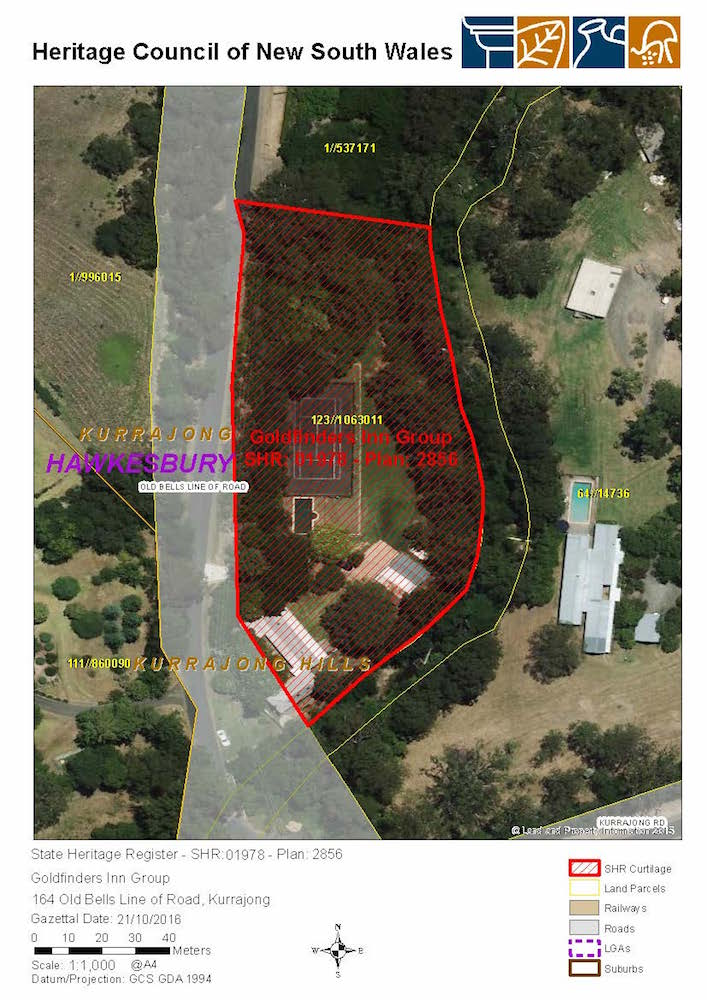 Goldfinders Inn: SHR Plan No 2856